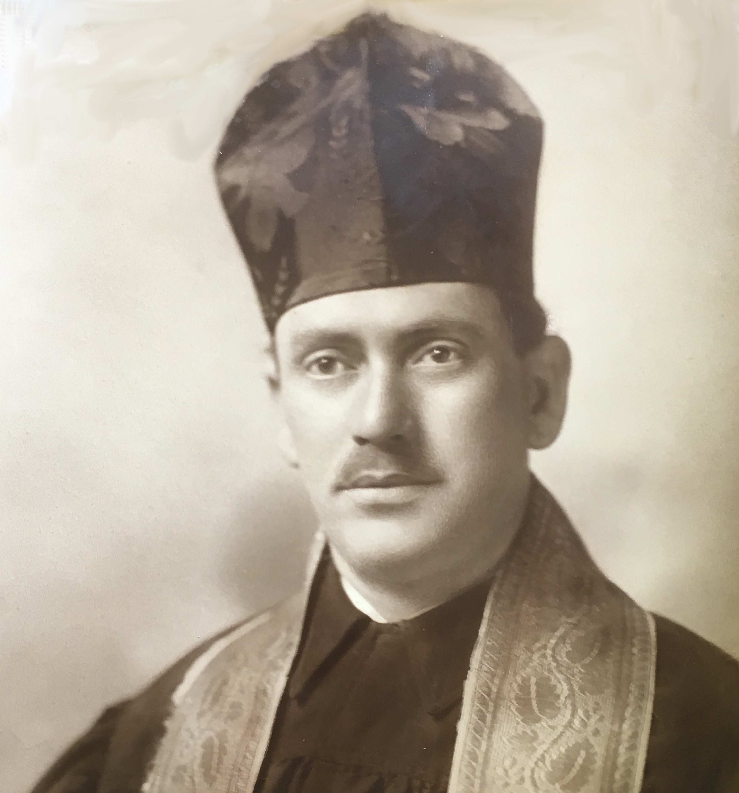 Izso in cantorial robes